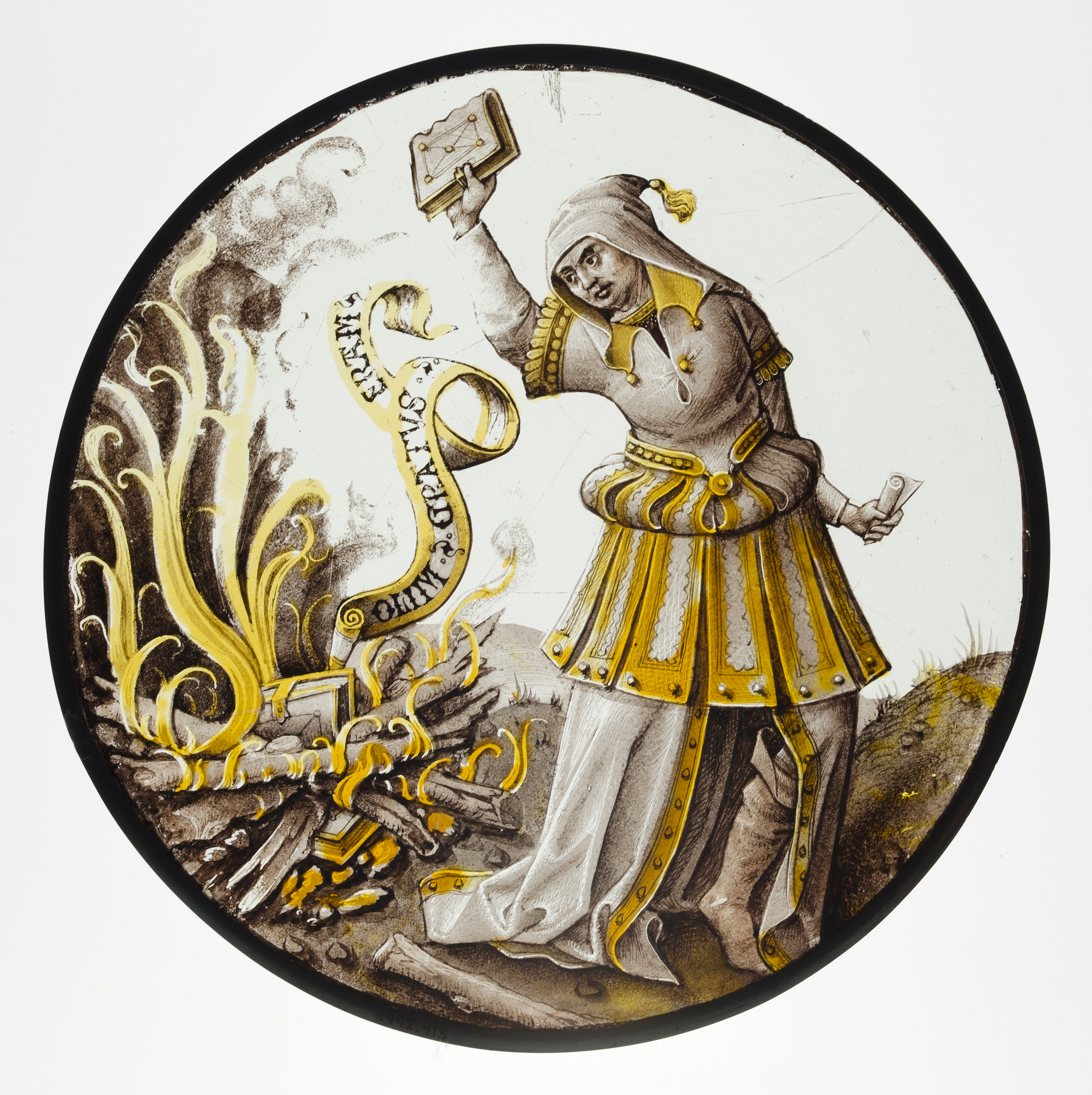 North Netherlandish; Roundel; Glass-Stained